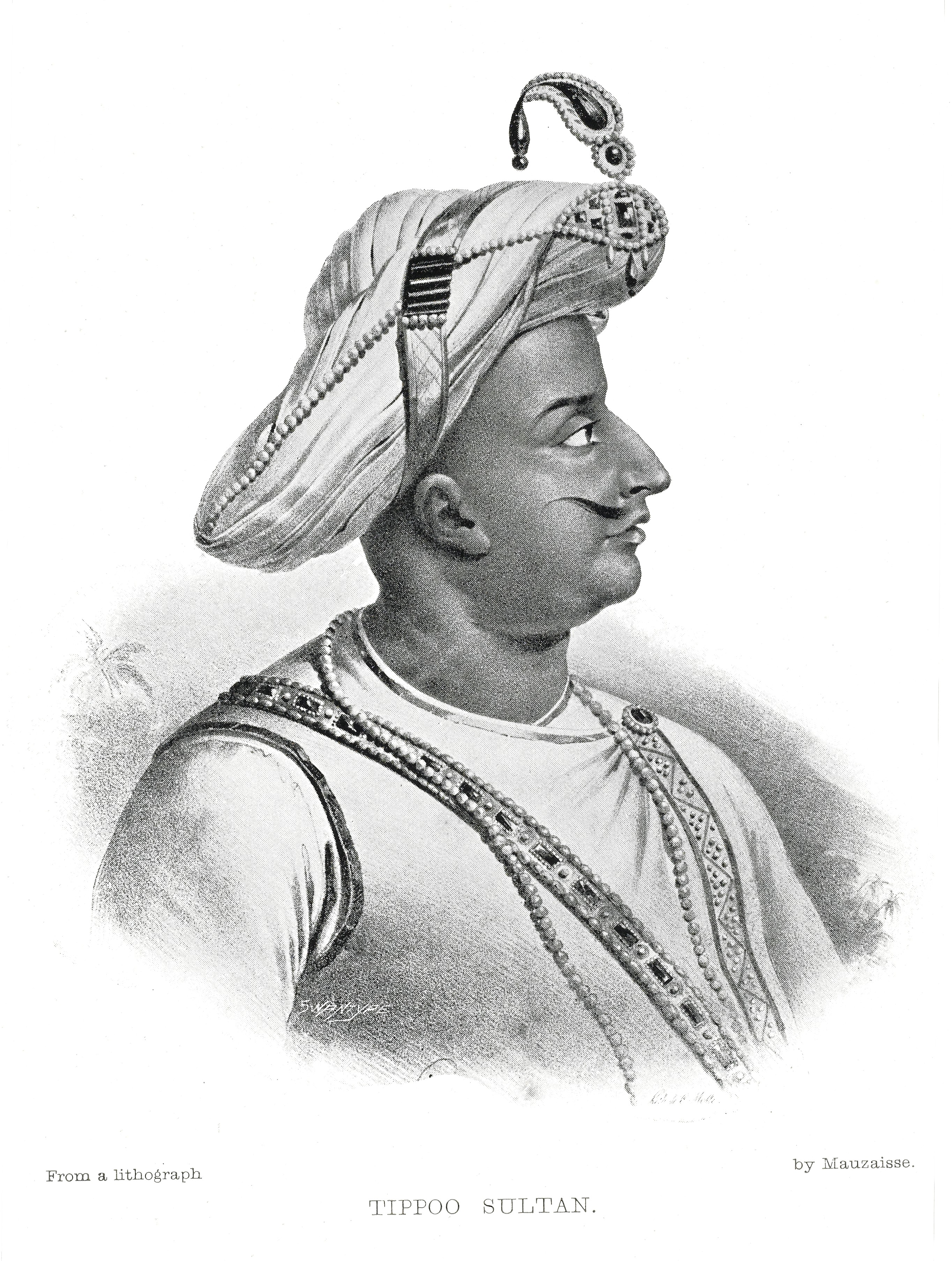 Portrait of Tippoo Sultan Wellcome Images